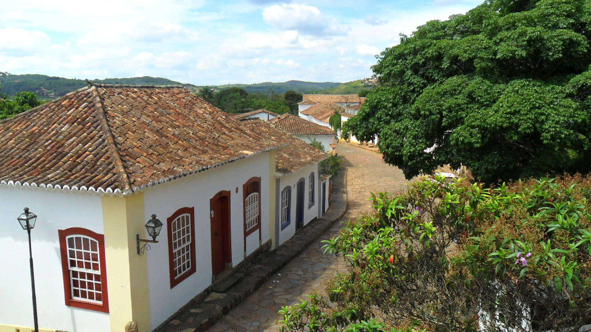 Geraldo Resende Street in Tiradentes, Minas Gerais, Brazil